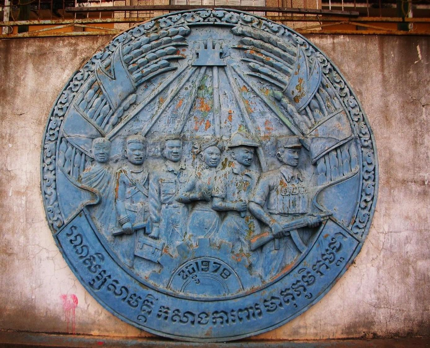 Emblem of the Kampuchean United Front for National Salvation (FUNSK), taken in Phnom Penh